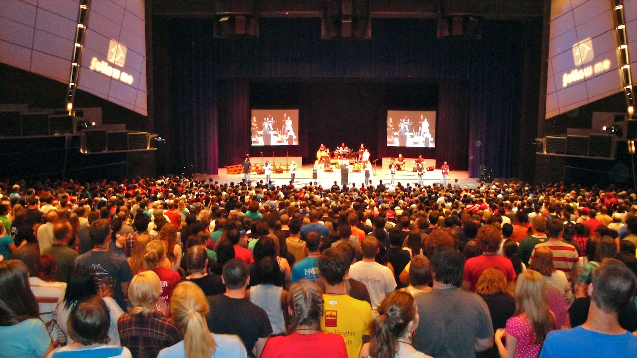 Chicago Campus Conference